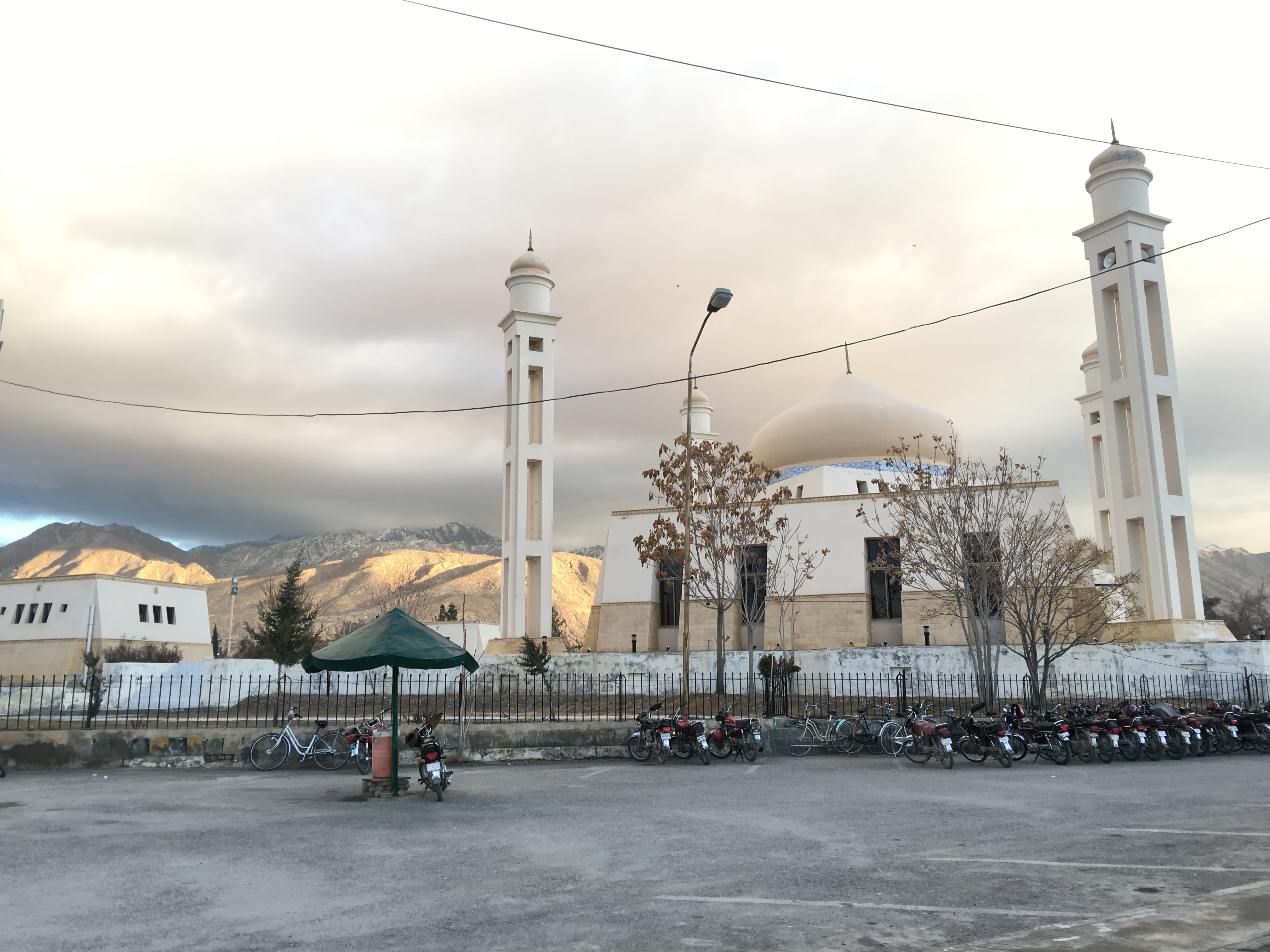 This is a mosque in the Quetta. It is situated in the Bolan area.